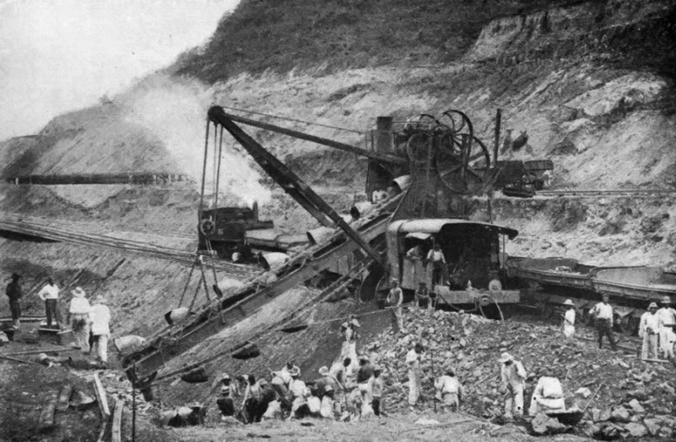 Universal Interoceanic Canal Company at the foot of the Gold Hill in the Culebra Cut 1896. Inadequate machinery, such as the tiny dump cars and the Small Belgian Locomotive Shown here contributed to the failure of the French in the valiant effort to link the Atlantic and the pacific. This photo of an old bucket excavator at work in Culebra Cut at the foot of Gold Hill was made in 1896.